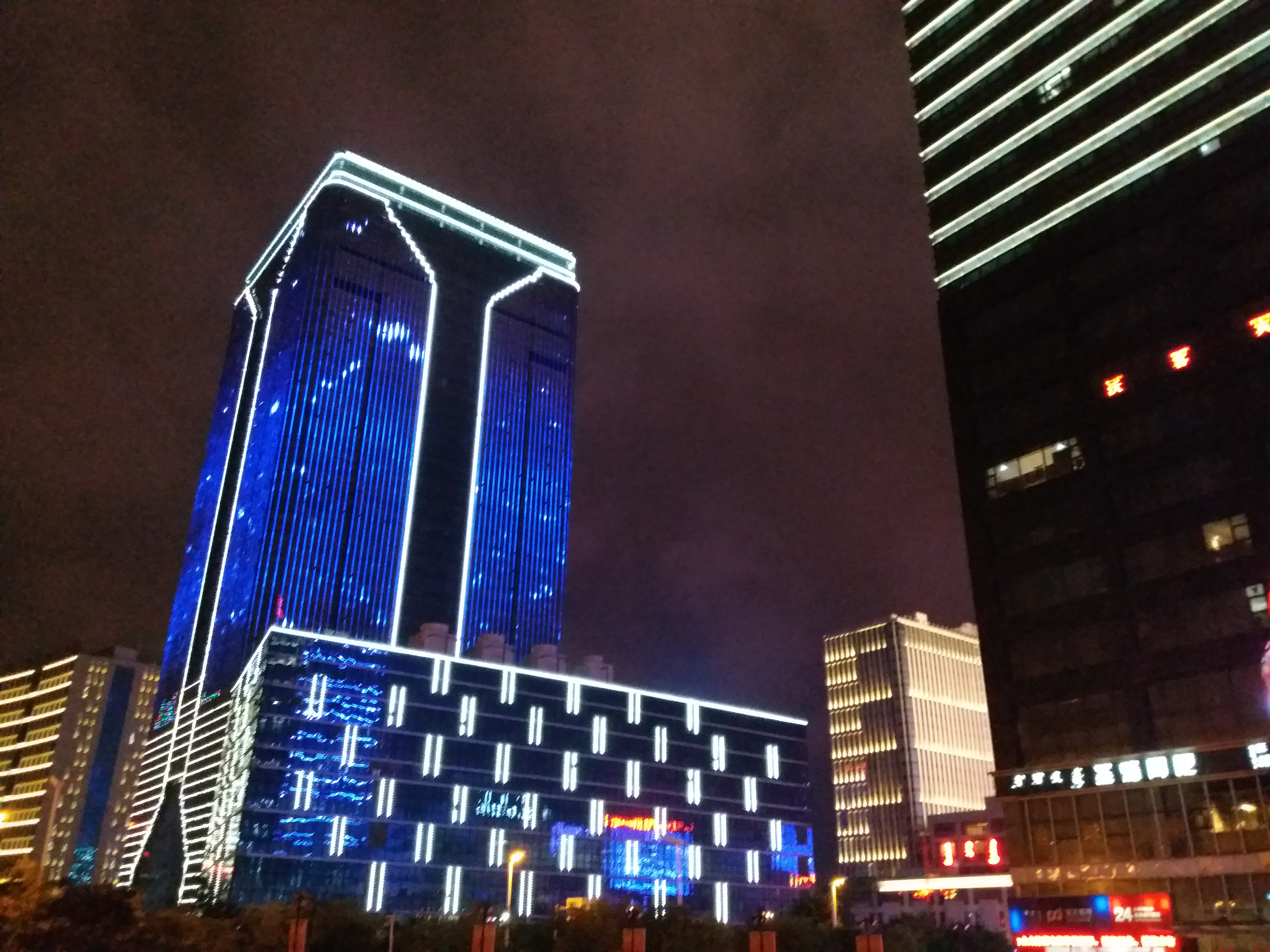 City center of Dongsheng District, Ordos, Inner Mongolia, China. National day week in 2017